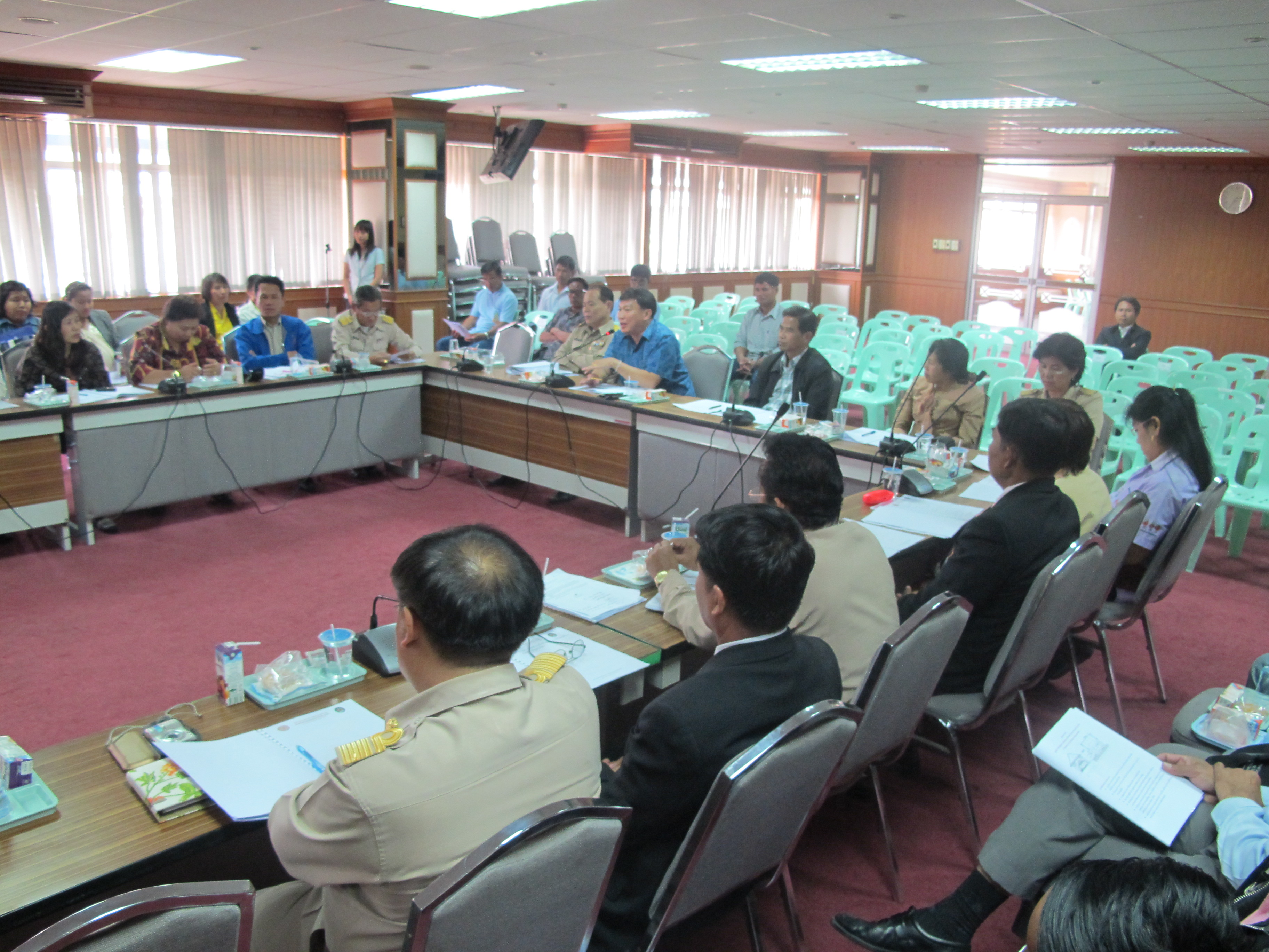 การรายงานความก้าวหน้าบ้านโนนวัด